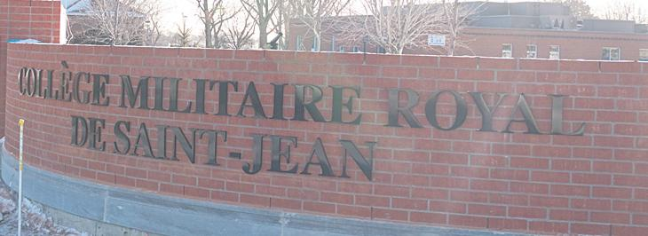 Royal Military College Saint-Jean main entrance, Saint Jean sur Richelieu, Quebec, Canada